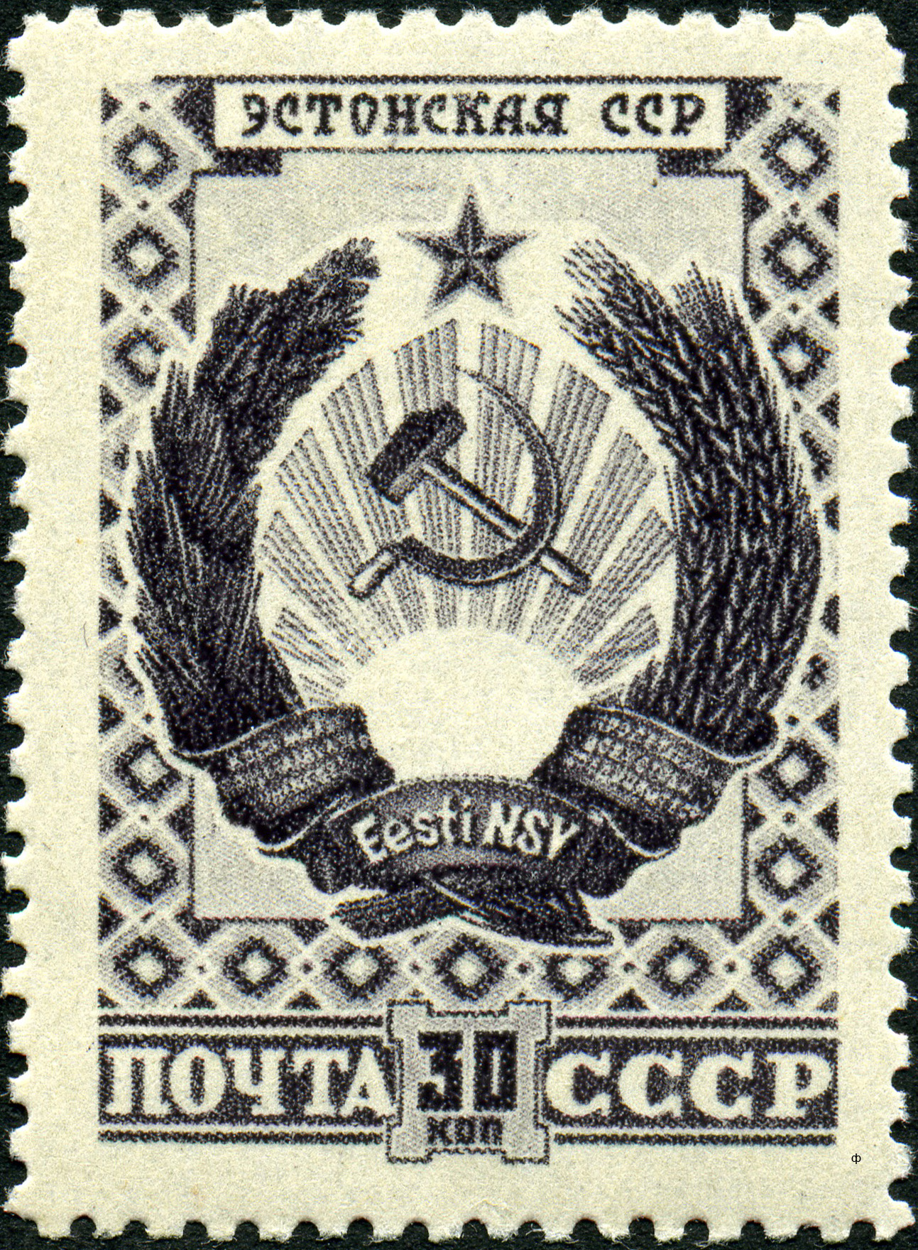 USSR stamp of 1947 from the series Official coats of arms of the USSR and Soviet republics; Coat of arms of Estonian Soviet Socialist Republic; CPA # 1128